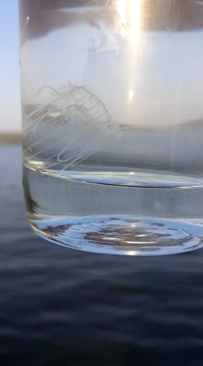 Craspedacusta sowerbii in Lake Muhazi